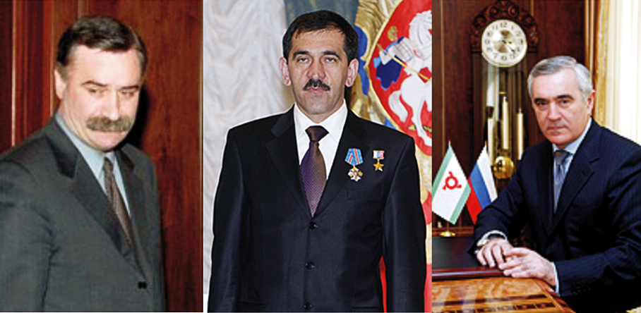 Famous ingush people. Collage made for the russian article (Ингуши)